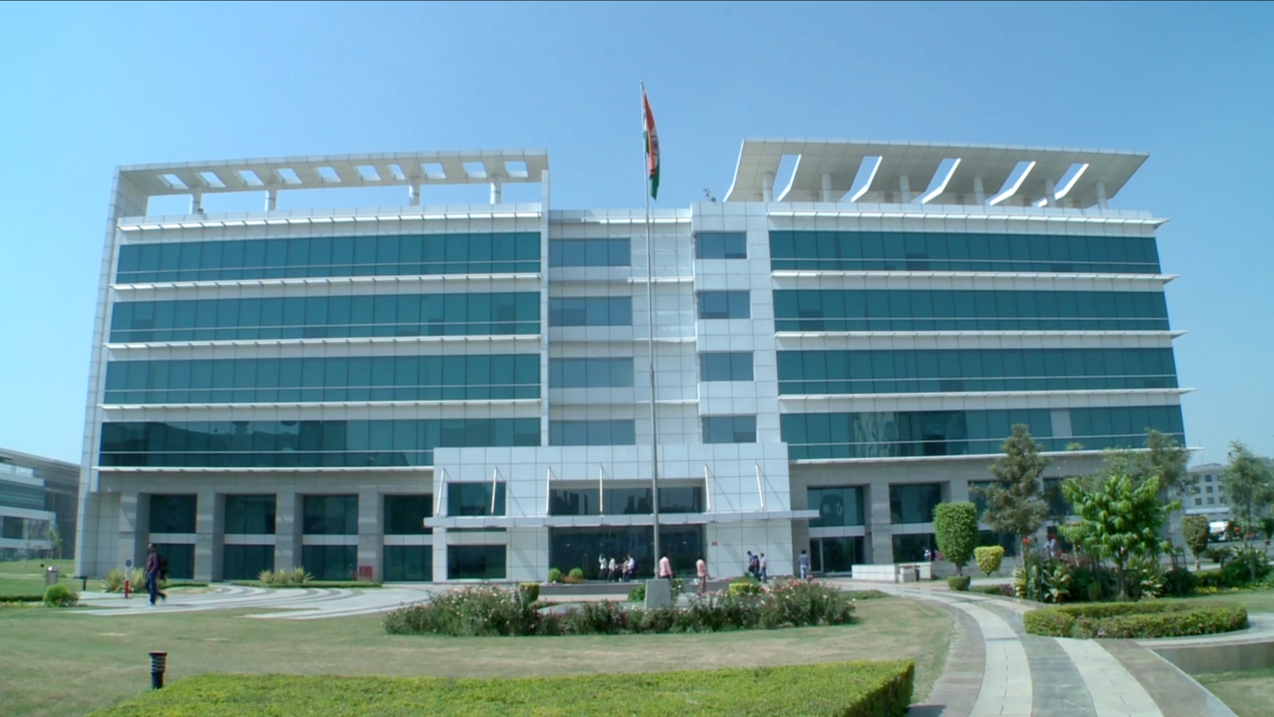 Front view of HCL Technologies' Noida SEZ Campus. Other information This image was clicked by the owner, I have contacted him and he has agreed to donated the image to Public Domain. He has also authorized me to represent him to declare the image under Creative Commons Attribution-ShareAlike 3.0 Unported and GNU Free Documentation License.